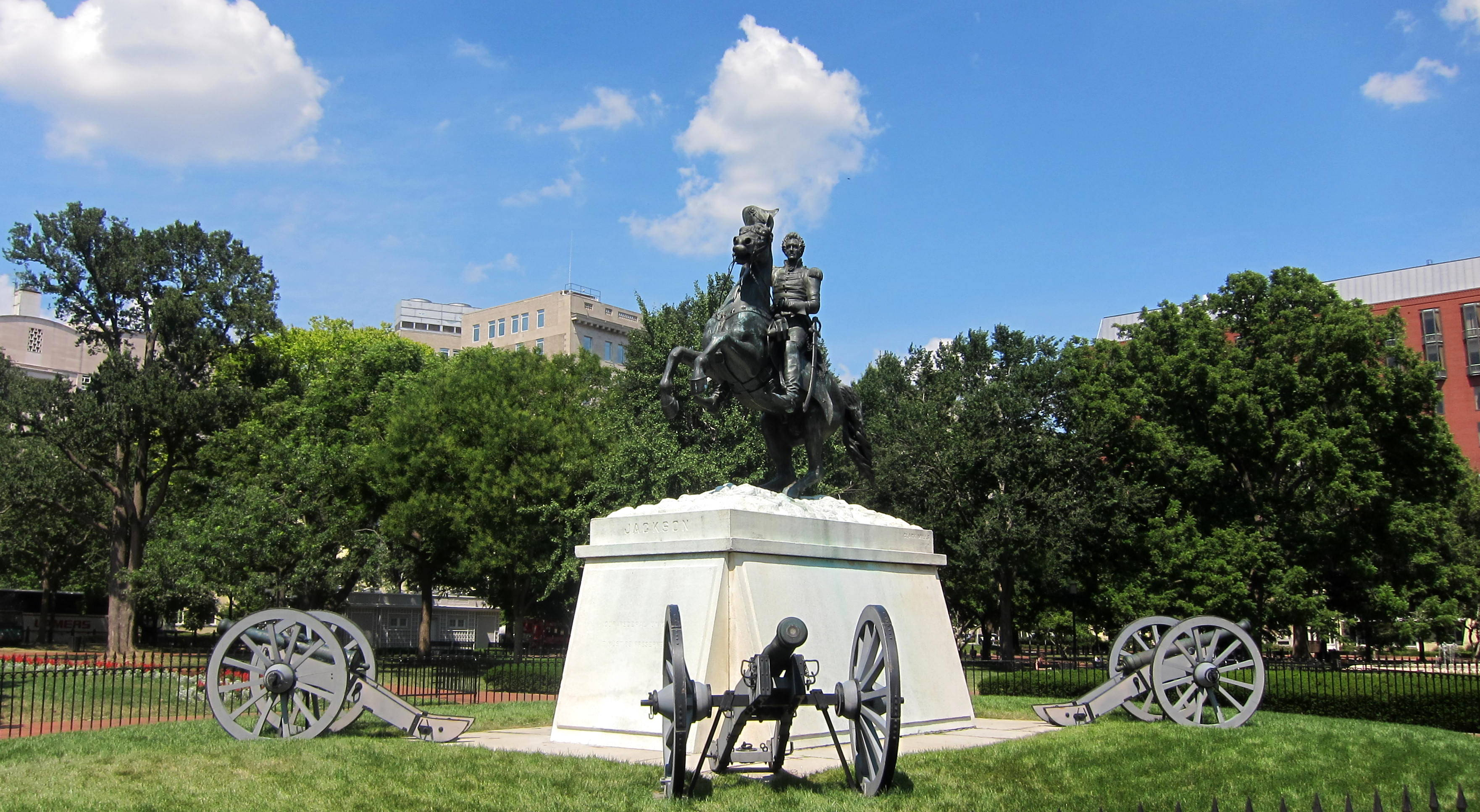 The equestrian sculpture of Andrew Jackson (1852, Clark Mills) located in Lafayette Square in Washington, D.C. The sculpture is designated as a contributing property to the Lafayette Square Historic District, which was declared a National Historic Landmark in 1970.